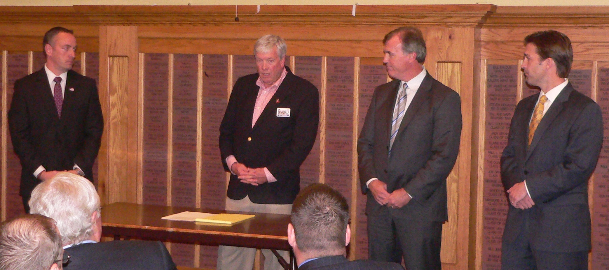 Buffalo County Republican Party candidate night, held in Kearney on the evening of November 4, 2013. Candidates for U.S. Senate seat: from left to right, Shane Osborn, Sid Dinsdale, Bart McLeay, and Ben Sasse.